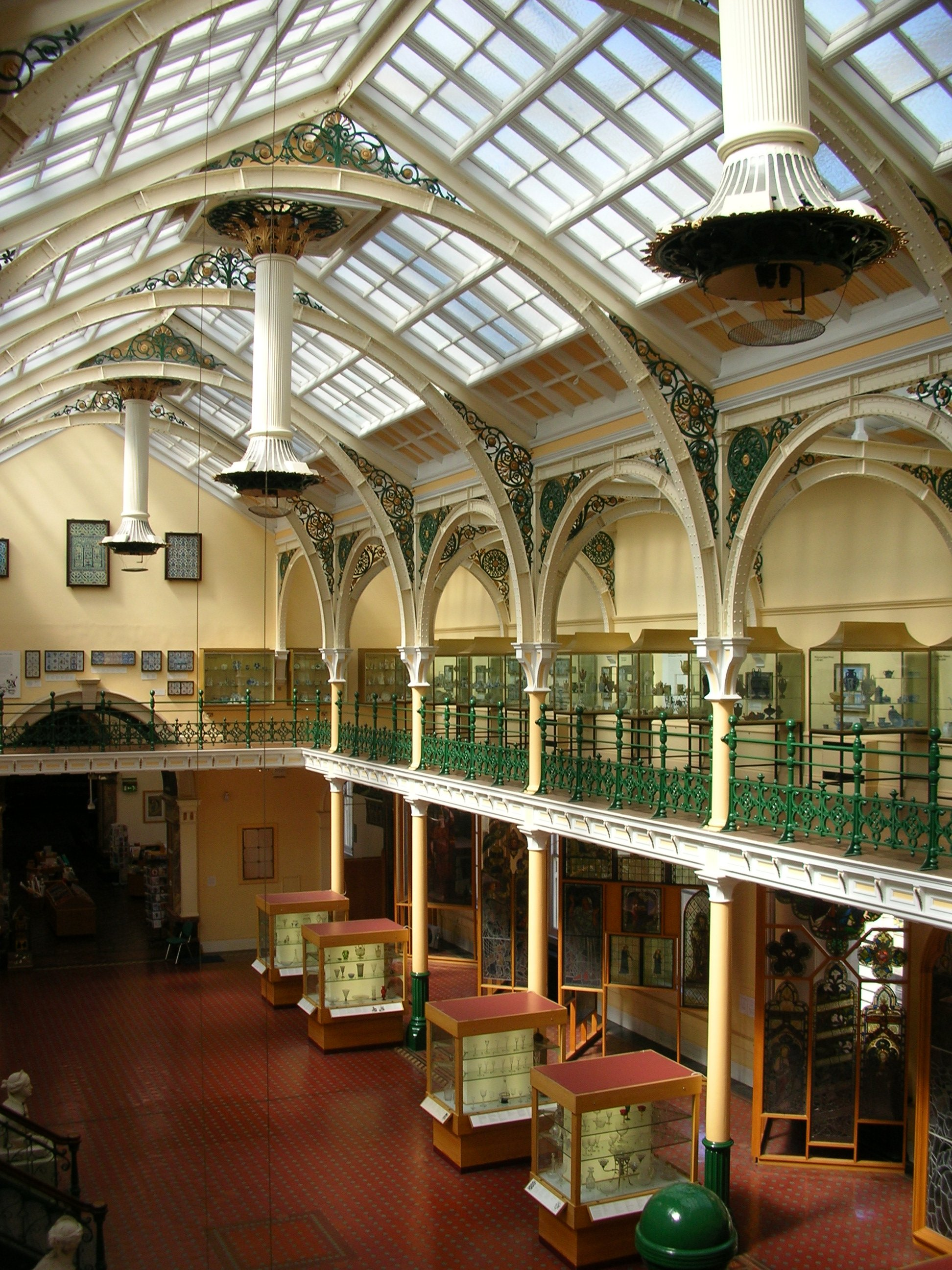 Industrial Gallery, Birmingham Museum & Art Gallery, England. The original art gallery (above the Gas Department, now Waterhall) in the first extension to Yeoville Thomason's Council House, now housing museum pieces not susceptible to the effects of natural light.